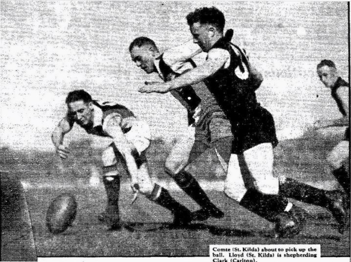 Harry Comte of St Kilda about to pick the ball up in the round 16 VFL match between the Carlton Football Club and St Kilda Football Club on 24 August 1935 at Princes Park in Melbourne, Victoria.